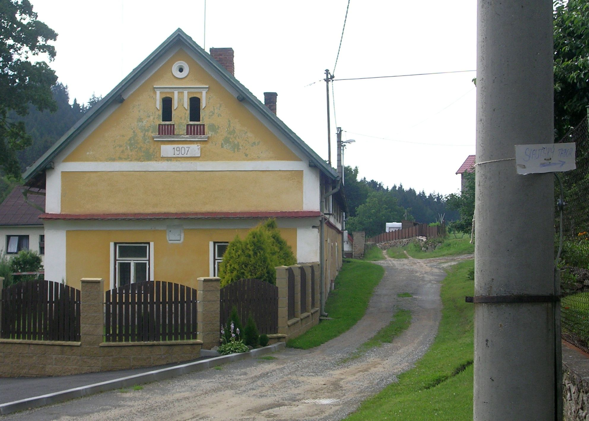 Sedlčany-Štileček, Příbram District, Central Bohemian Region, the Czech Republic. - Google Maps - Google Earth